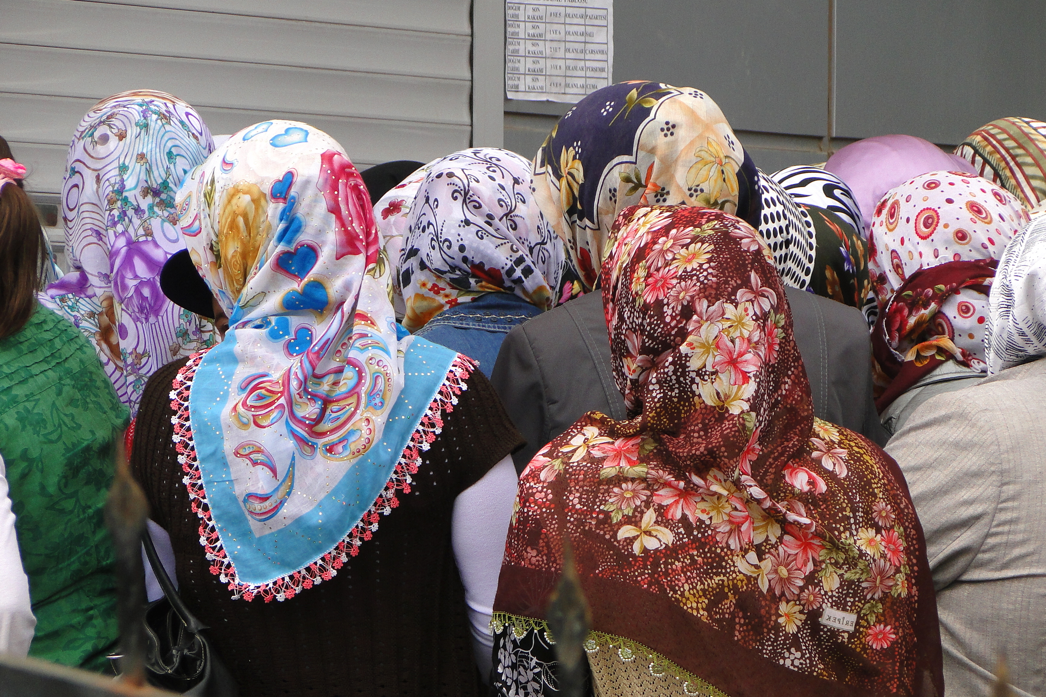 Kurdish Women in Hijab Headscarves - Dogubayazit - Turkey